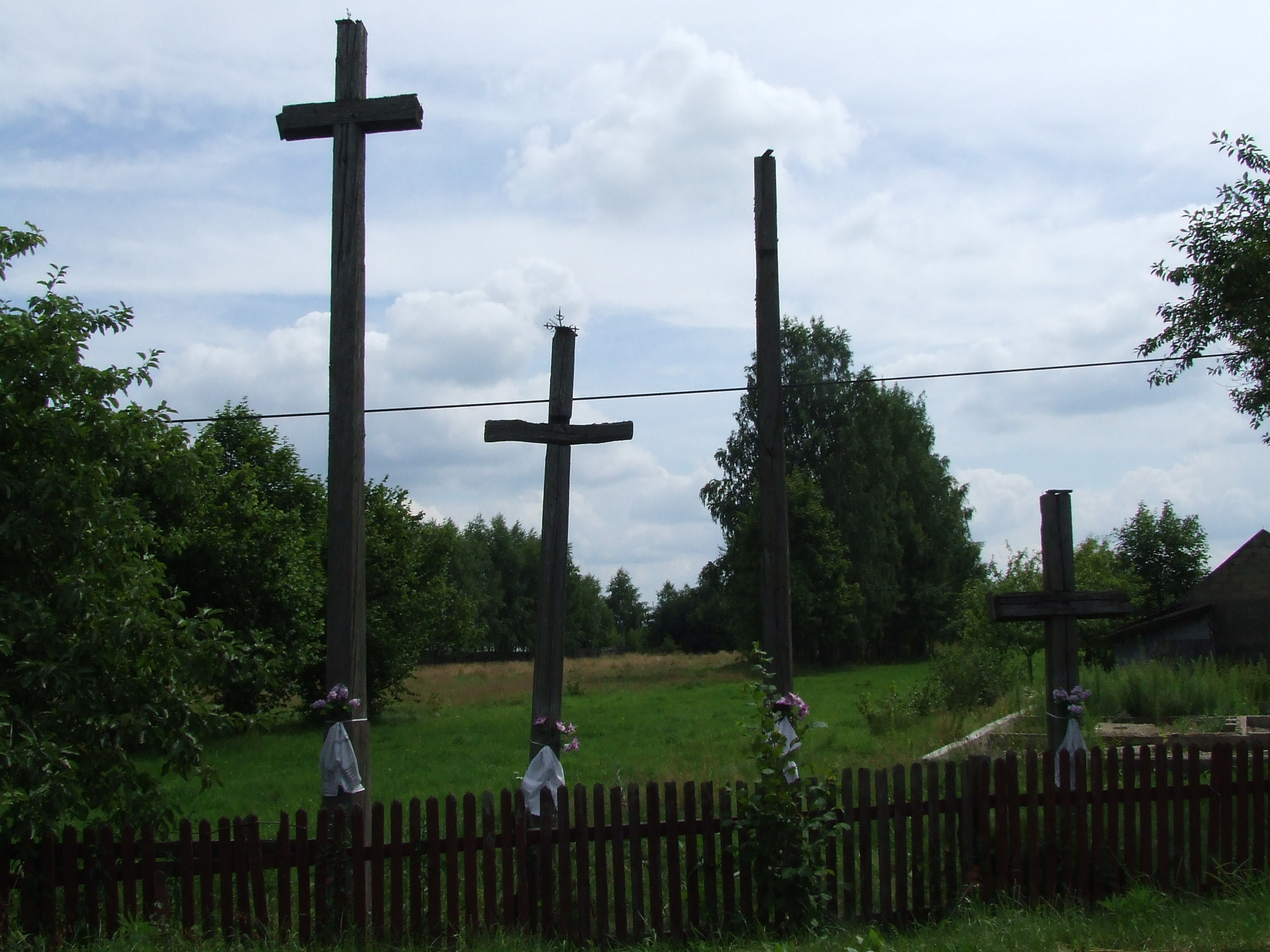 This photo from Podlaskie Voievodeship was taken during Polish Wikiexpedition 2009 set up by Wikimedia Polska Association. The making of this document was supported by Wikimedia Polska. Crosses in Chytra